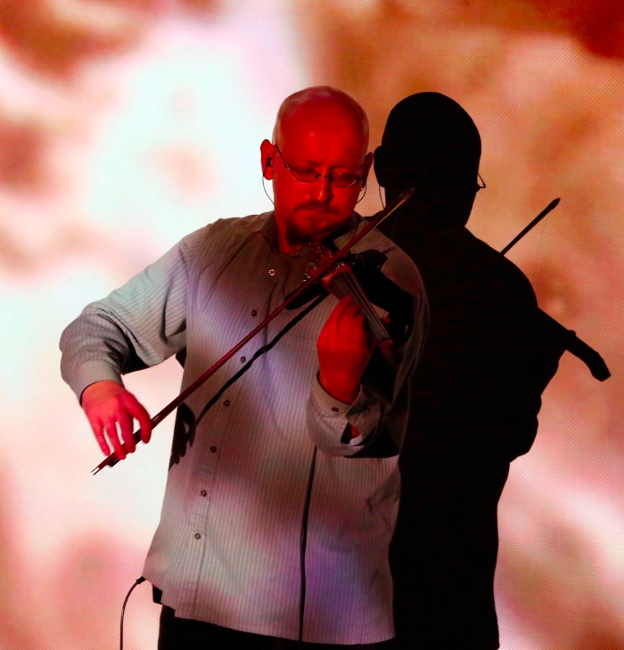 Pawel Odorowicz - Polish violist, composer, arranger and music producer